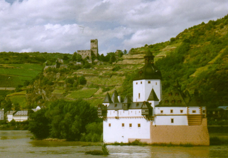 Castles in Rhine Gorge (Pfalz near Kaub)